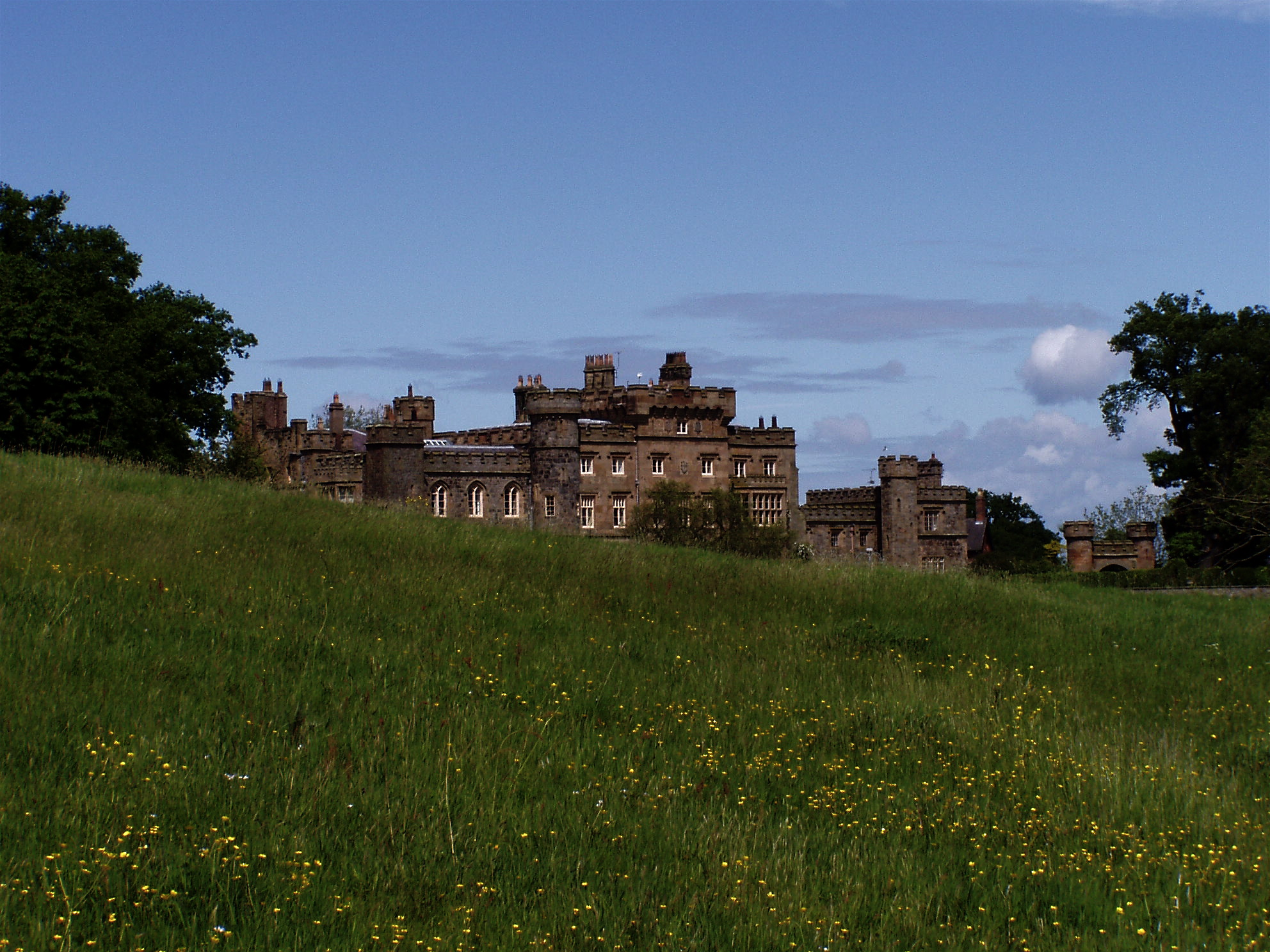 New Hawarden Castle in Flintshire, estate of former British Prime Minister William Gladstone